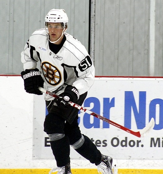 Anders Bjork